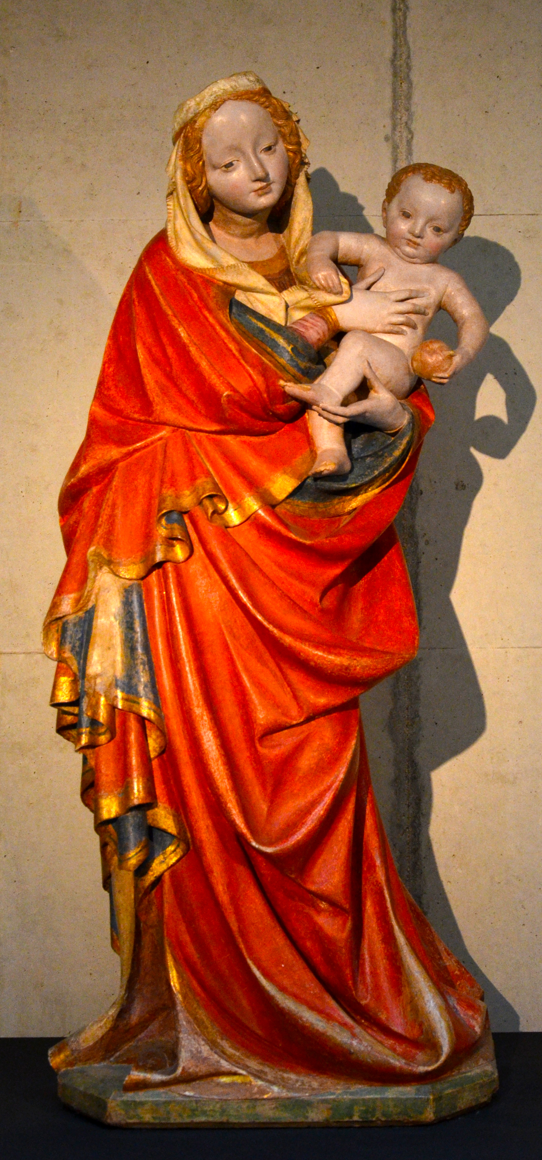 Gothic Madonna from Sternberk, around 1390, polychrome marlstone, Archdiocese Museum in Olomouc